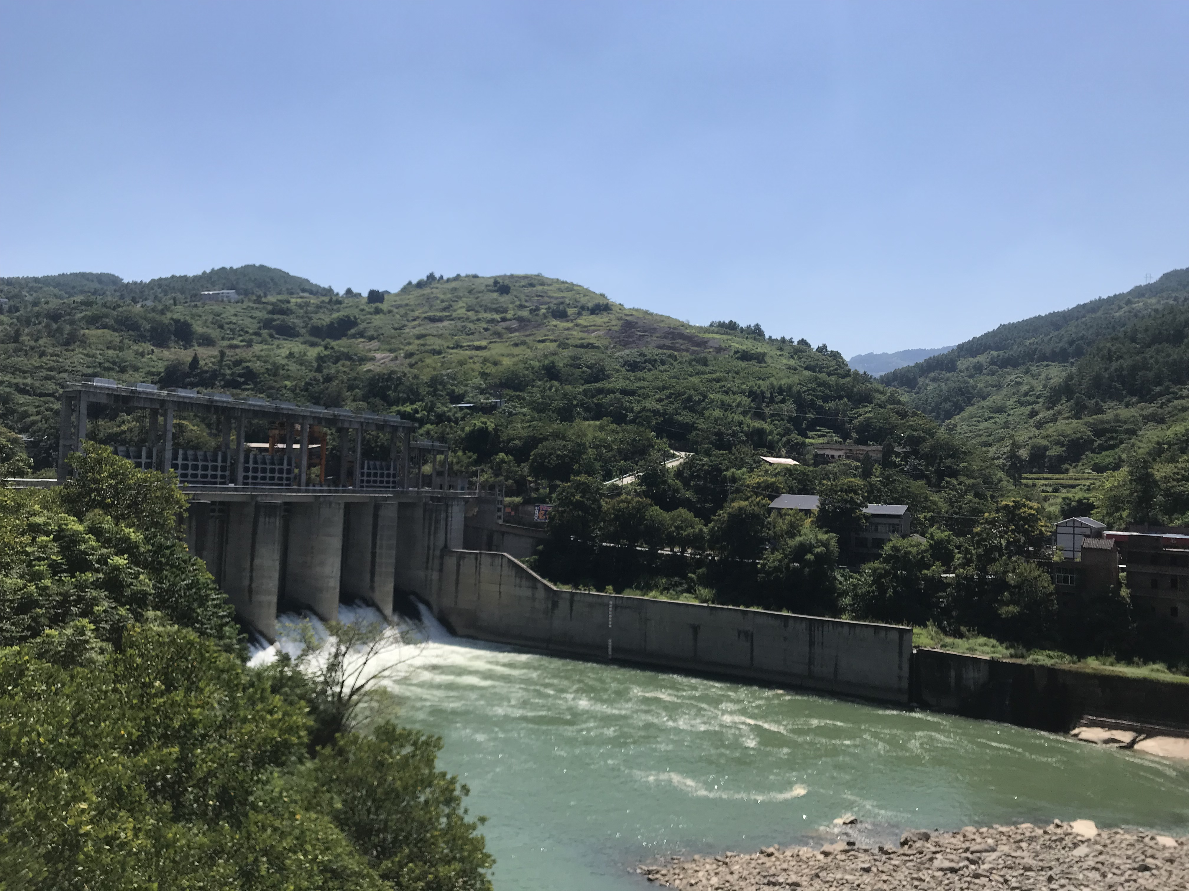 201908 Gaishidong Dam in Qijiang